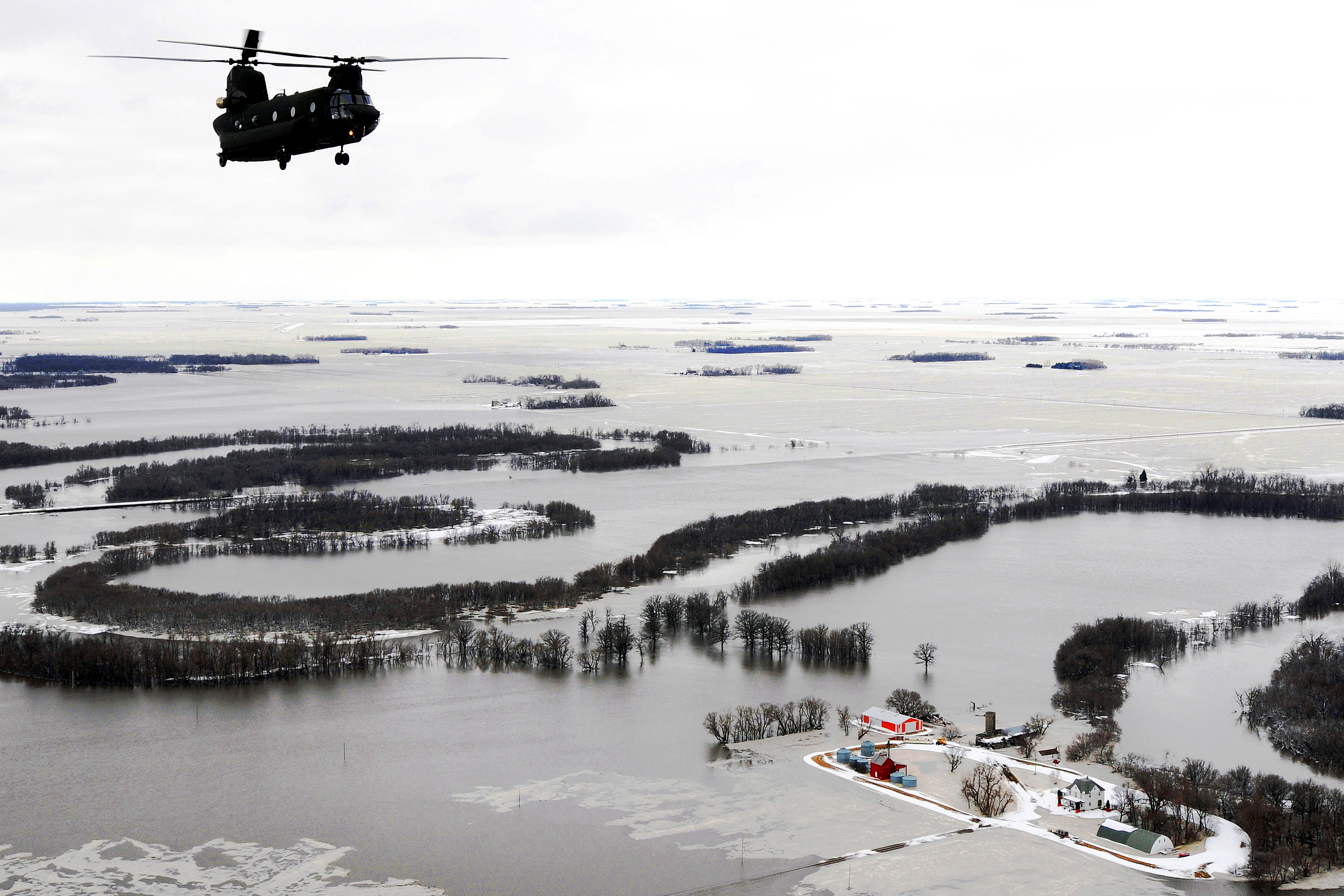 A Montana Army National Guard CH-47D Chinook helicopter flies over the North Dakota-Minnesota border area flooded by the Red River, April 1, 2009. The flight's purpose is to familiarize the aviators and soldiers assigned to the 1st Battalion, 189th Aviation Regiment, to possible flight hazards in the region. U.S. Army photo by Sgt. 1st Class Roger M. Dey